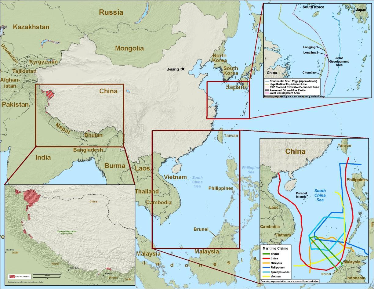 This map is an approximate presentation of PRC and other regional claims. China has remained ambiguous on the extent and legal justification for these regional claims. Three of China‟s major ongoing territorial disputes are based on claims along its shared border with India and Bhutan, the South China Sea, and with Japan in the East China Sea.